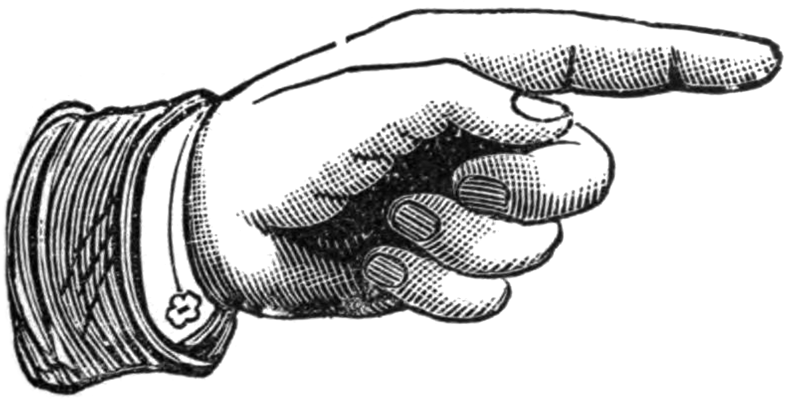 A right-pointing index or manicule from the Cincinnati Type Foundry, 1882